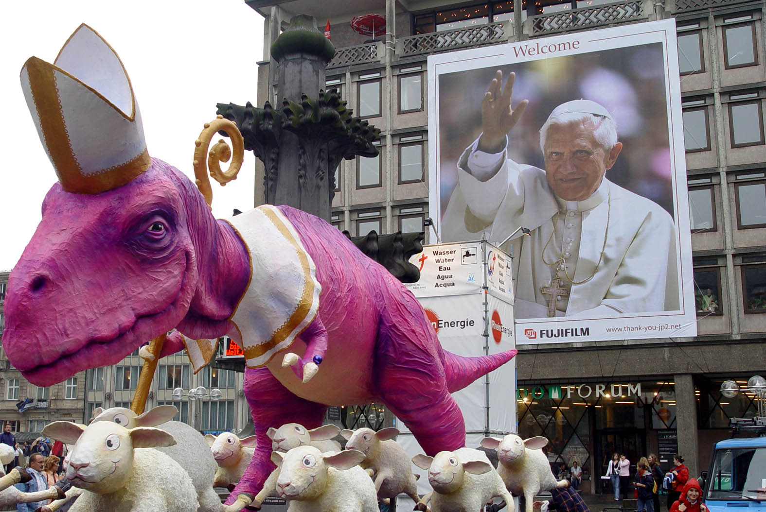 A sculpture of a caricatured dinosaur and sheeps (10 meters long and 4 meters tall) as criticism of the catholic church and the pope Benedict XVI, shown at the 2005 Weltjugendtag (WJT, World Youth Day) in Cologne, Germany.